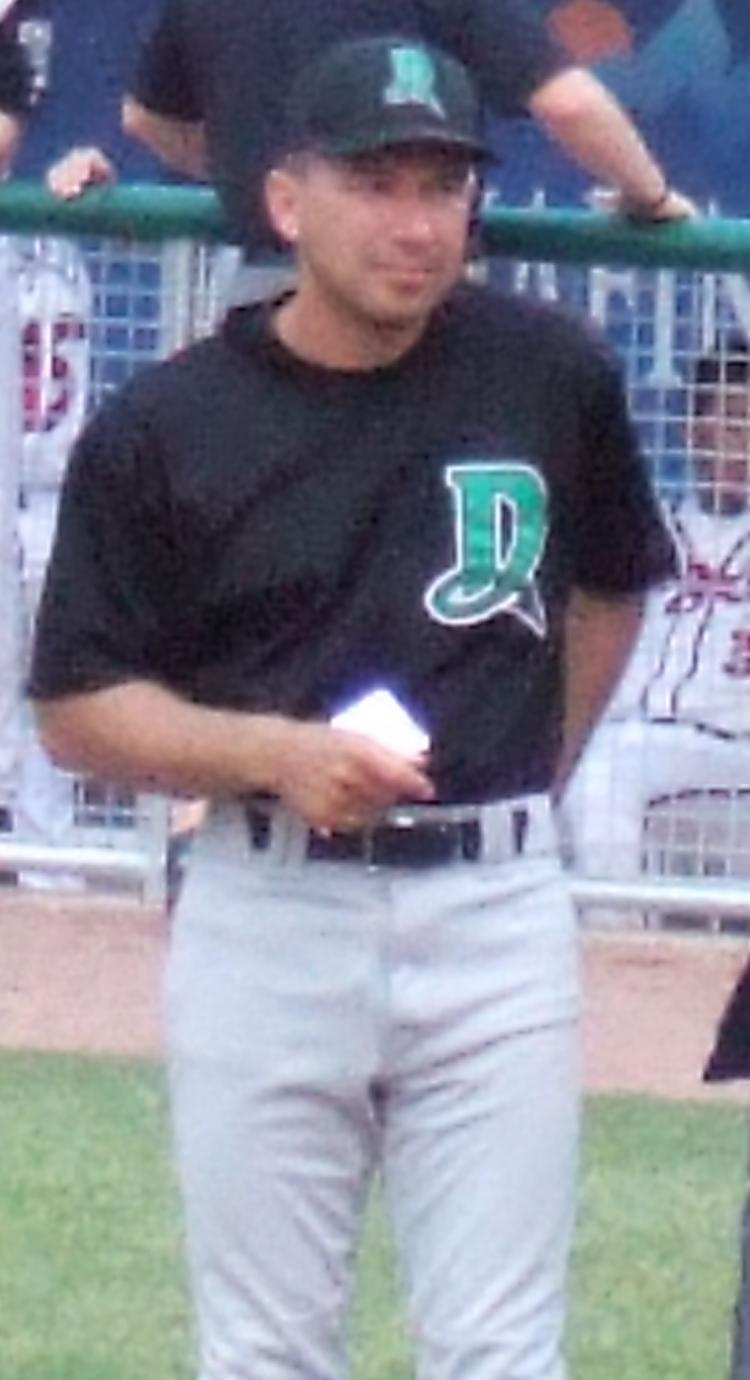 Chris Sabo. Dayton @ Lansing 060905